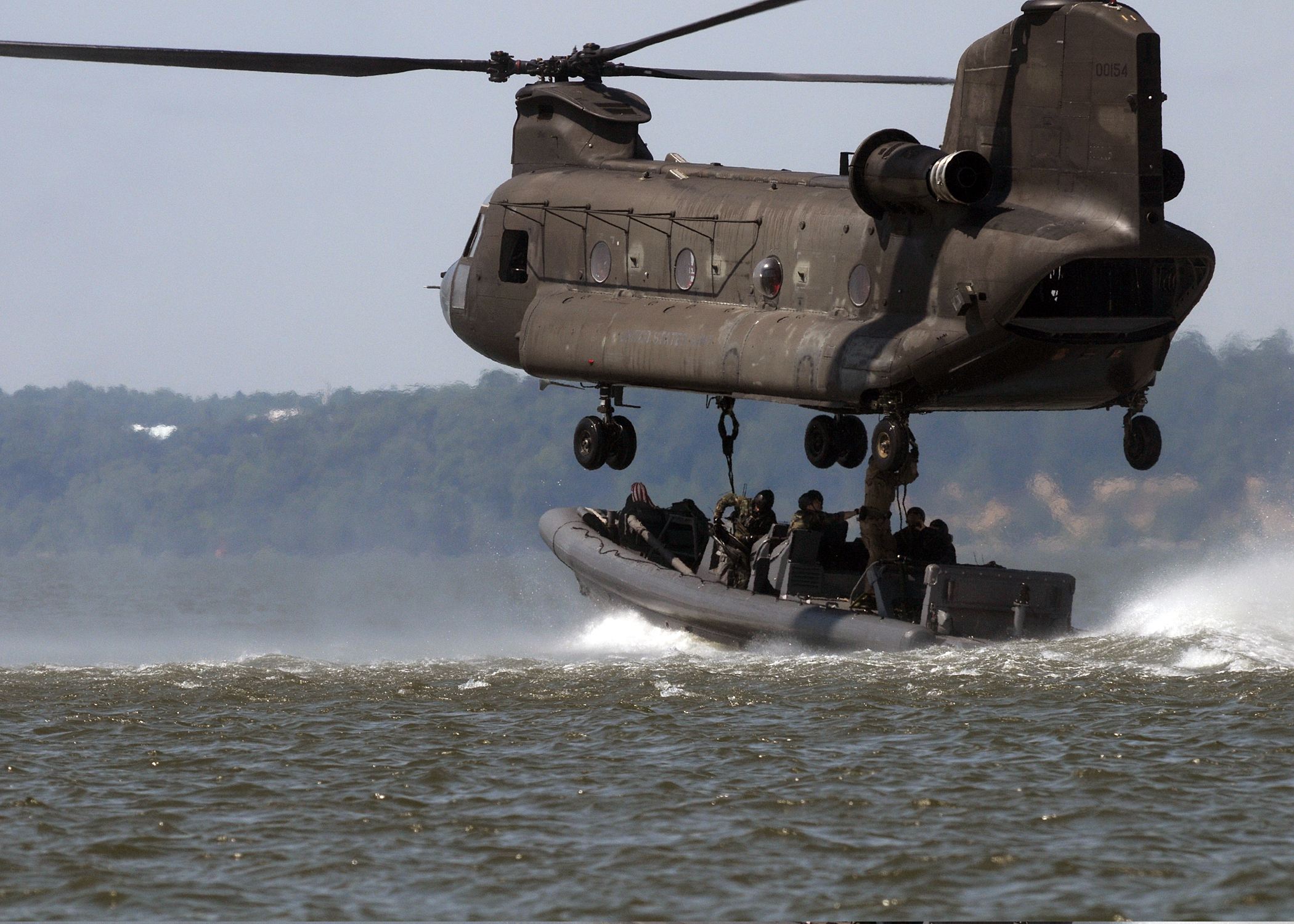 080716-N-4500G-001 U.S. Navy Special Warfare Combatant-craft Crewmen (SWCC) assigned to Special Boat Teams 12 and 20 rig their rigid-hull inflatable boat to a CH-47 Chinook helicopter assigned to the 159th Aviation Regiment during a maritime external air transportation system (MEATS) training exercise in the Virginia Capes near Fort Eustis, Va., 16 July 2008. MEATS trains members of SWCC on extending their operational reach by attaching special operations crafts to helicopters for transport to remote locations for further training. DoD photo by Mass Communication Specialist 3rd Class Robyn Gerstenslager, U.S. Navy. (Released)